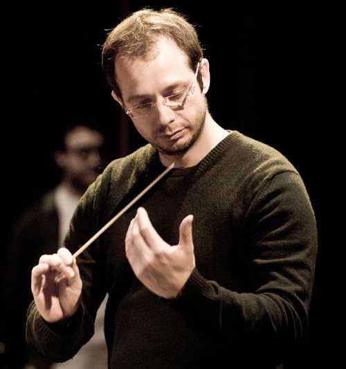 Original author's description: Note da Oscar, gennaio 2012 - prove prima del concerto Notes: cut version